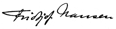 Signature of Fridtjof Nansen, Norwegian scientist, explorer and humanitarian